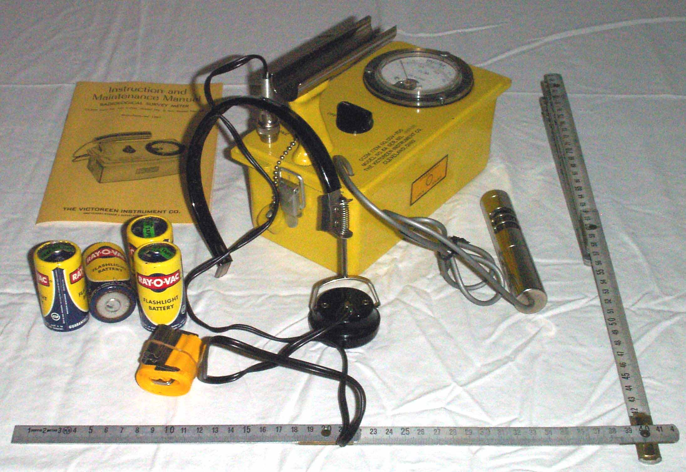 Victoreen Civil Defense V-700 Geiger counter overview. Folding ruler markings are in centimeters.